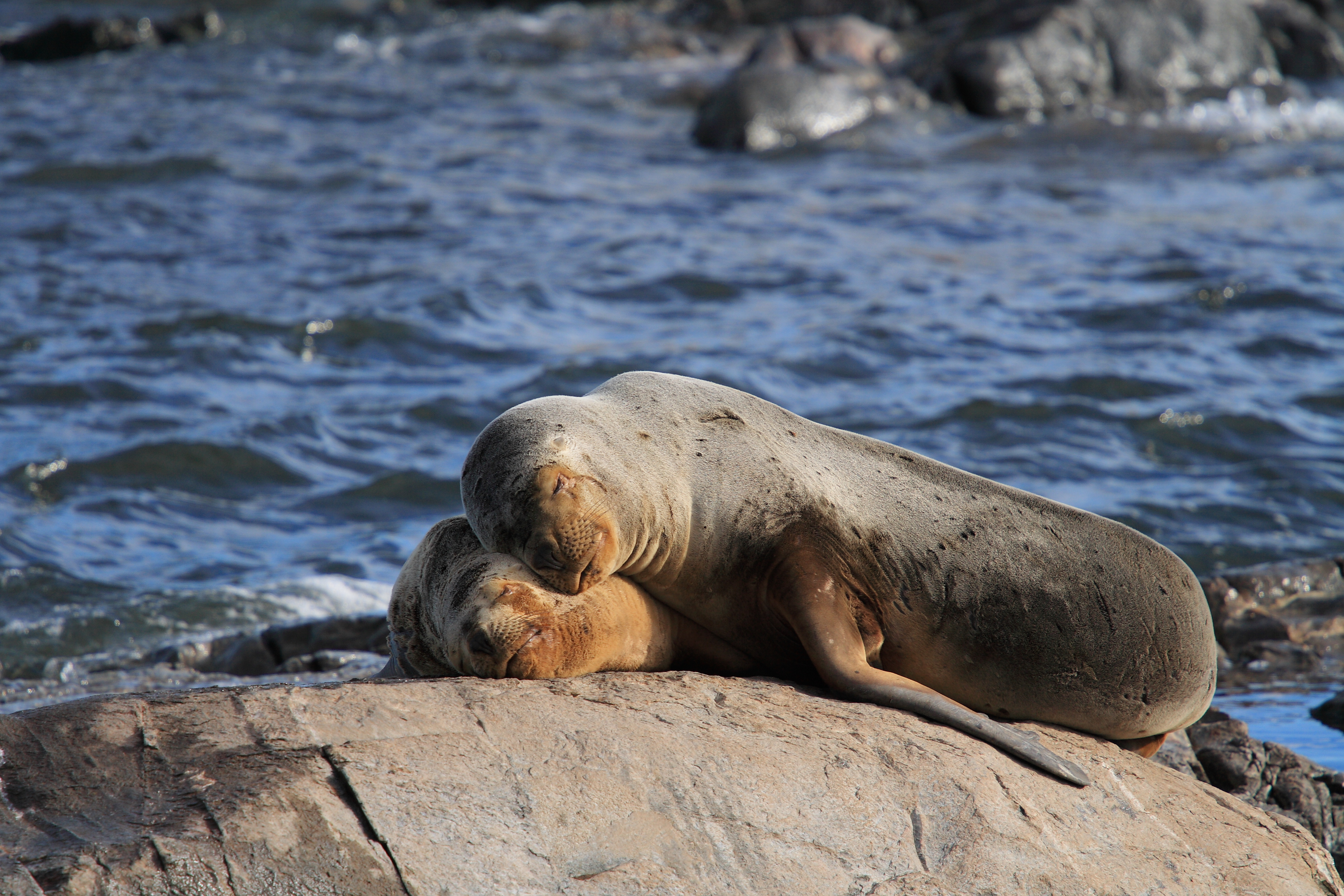 “Between a rock and hard place”. Female and cub. South American Sea Lions (Otaria flavescens, previously Otaria bryonia), taking a siesta on “La Isla de Los Lobos” in the Beagle Channel, Tierra Del Fuego, Argentina.